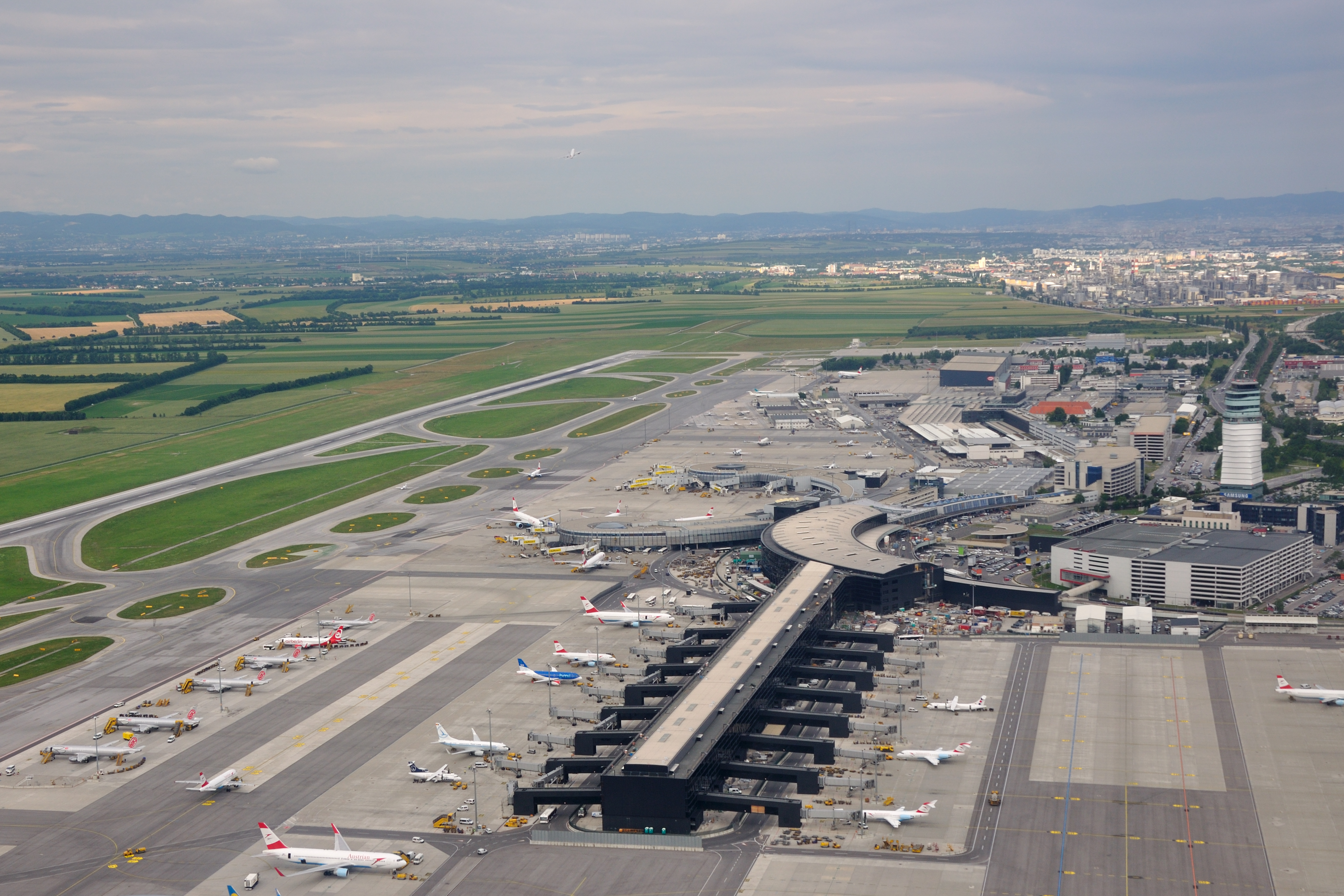 Austria, climbing out of Wien-Schwechat